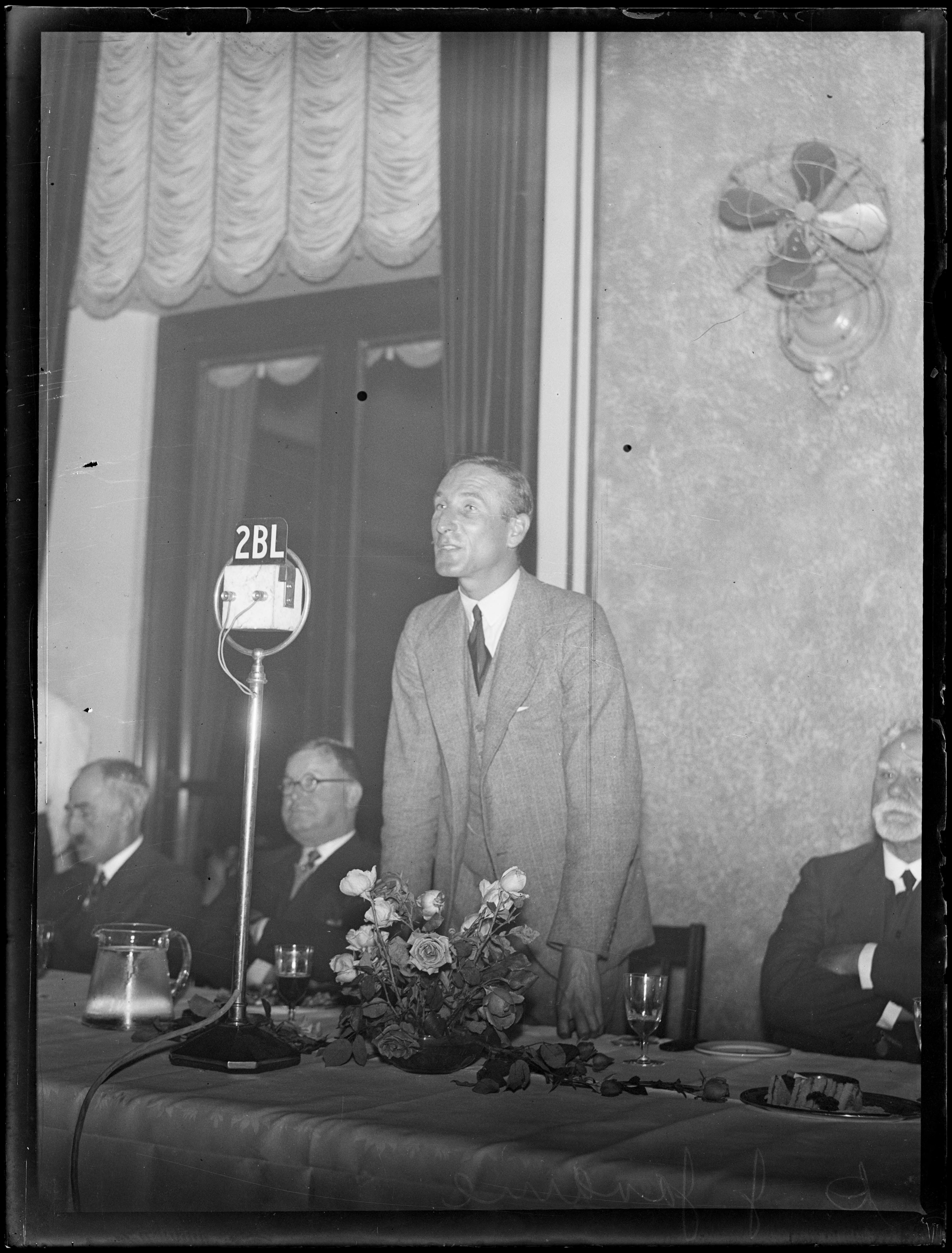 English cricketer Douglas Jardine at the Hotel Australia in Sydney talking on a 2BL (AM) microphone, on the day the English cricket team arrived in Sydney during the 1932–33 tour of Australia